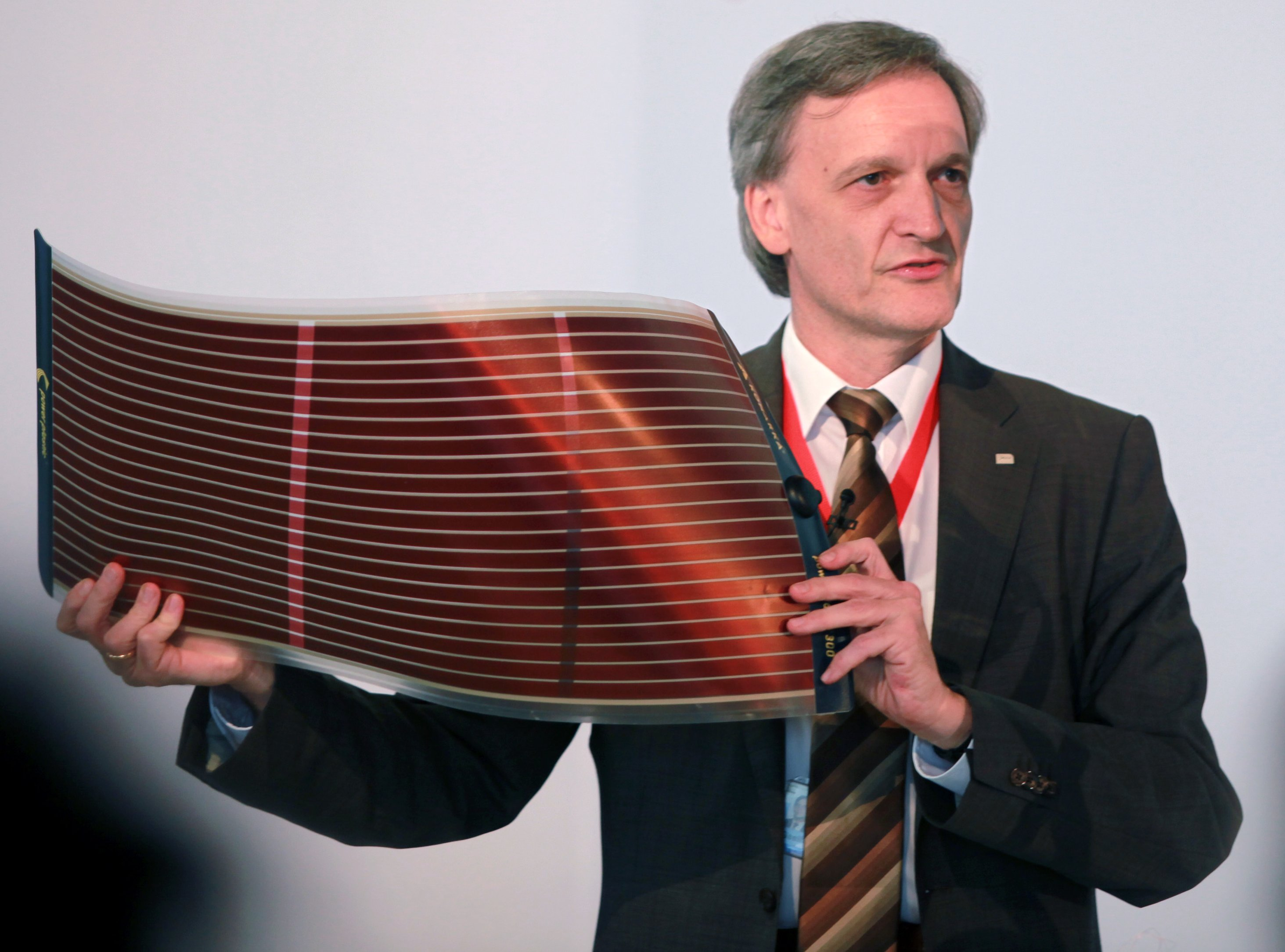 A commercially available polymeric organic solar cell, shown by Thomas Geelhaar CTO of Merck KGaA, during a press conference prior the opening ceremony of Merck's Material Research Center in Darmstadt (Germany). For a white OLED lamp see File:OLED 01.jpg.